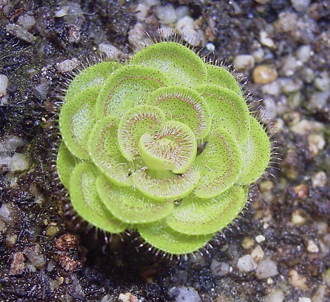 Drosera zonaria Author: Denis Barthel